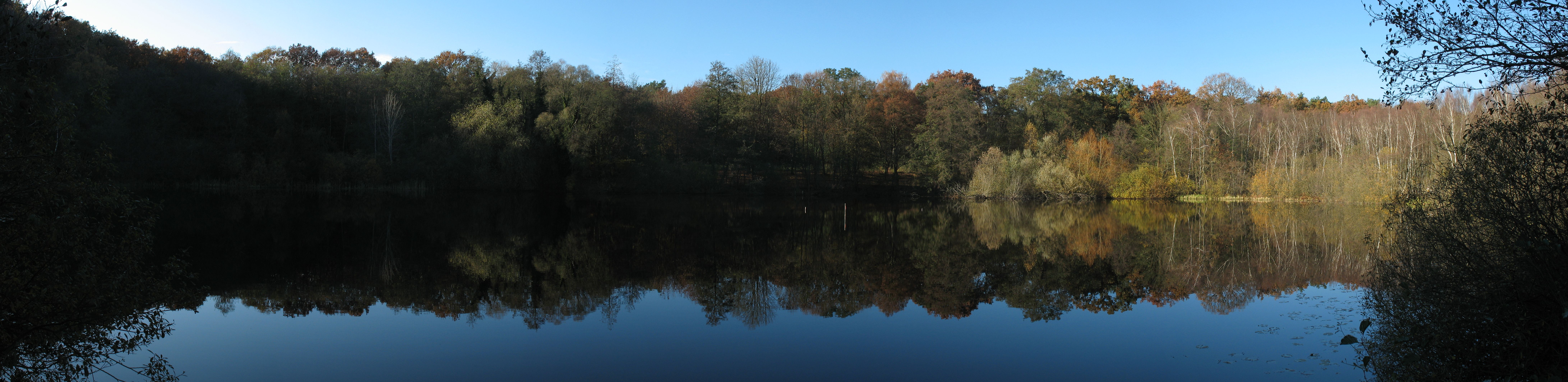 Teufelssee in Berlin-Köpenick, Germany